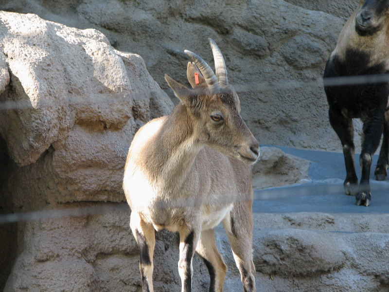 Spanish Ibex. Taken at the San Diego Zoo by Justin Griffiths and released to the Public Domain.